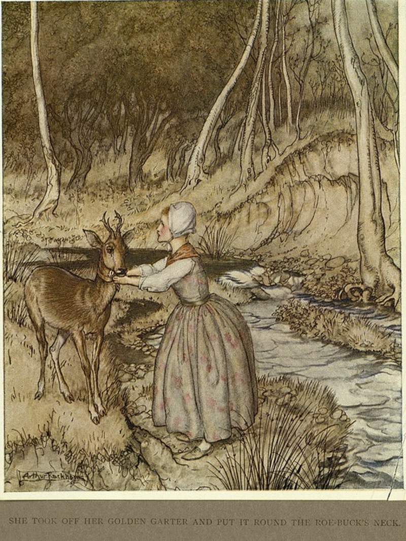 Little brother & little sister and other tales by the Brothers Grimm, illustrated by Arthur Rackham, 1917.